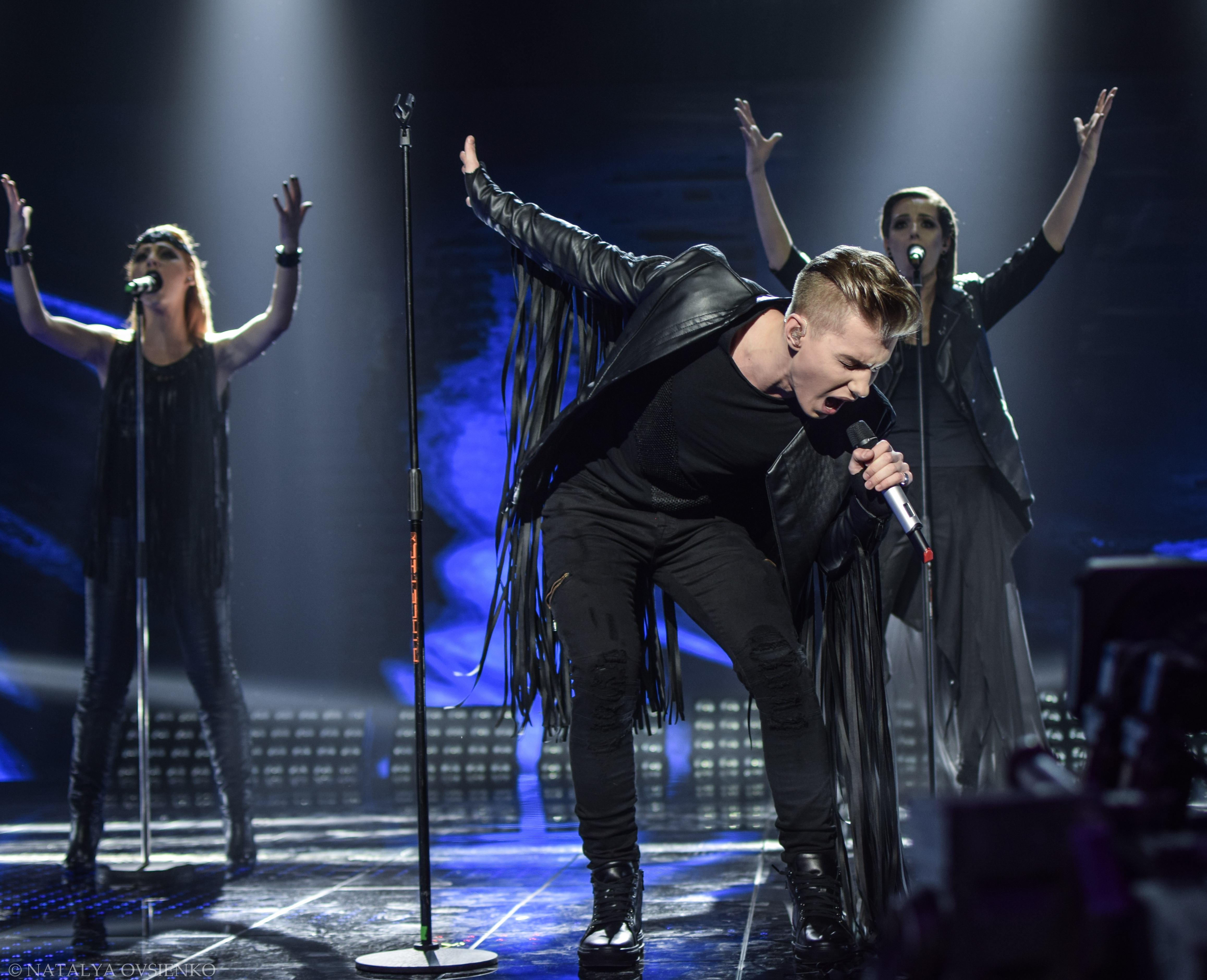 National Selection For Eurovision 2017 From Belarus, Minsk